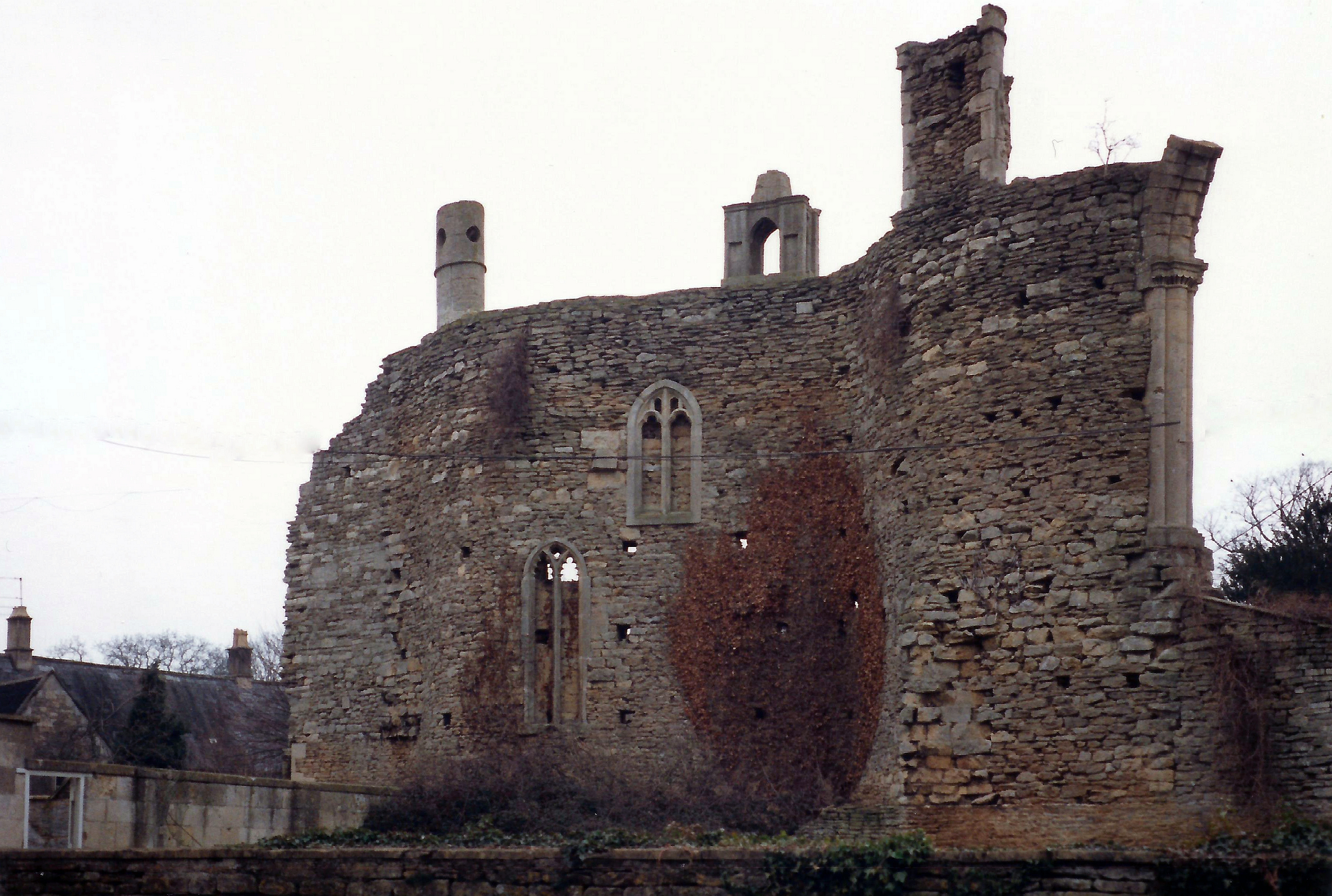 Folly wall adjacent to Corsham Court, Wiltshire